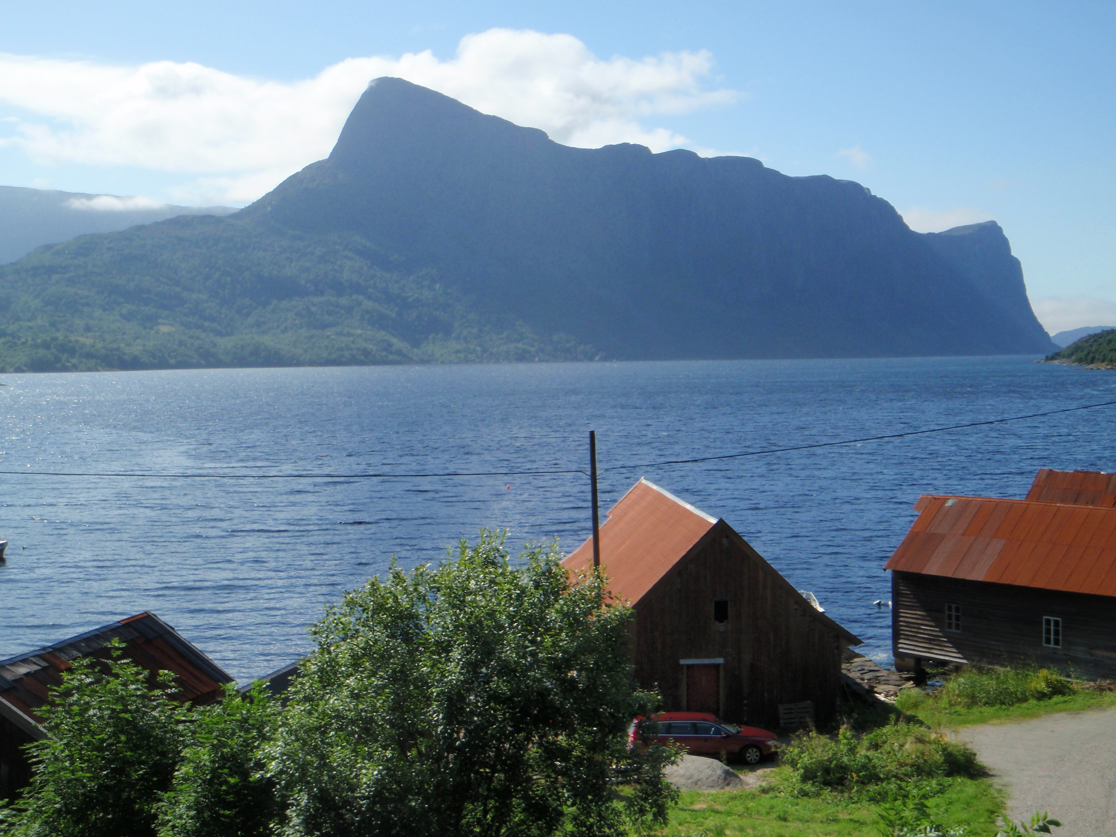 The Lihesten -mountain massif Sognefjorden, Norway